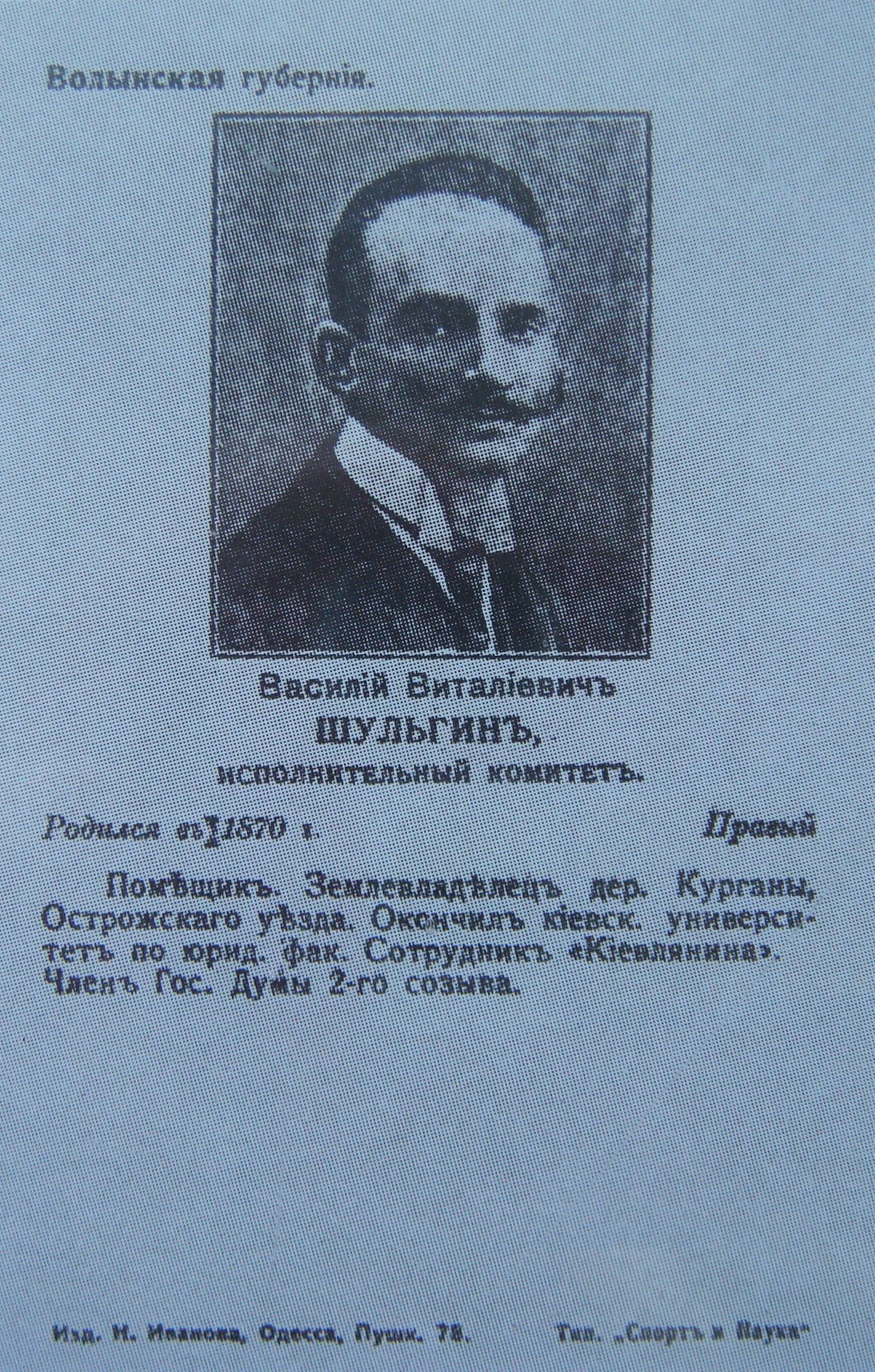 Electional bullet of III Duma of Vasiliy Shulgin